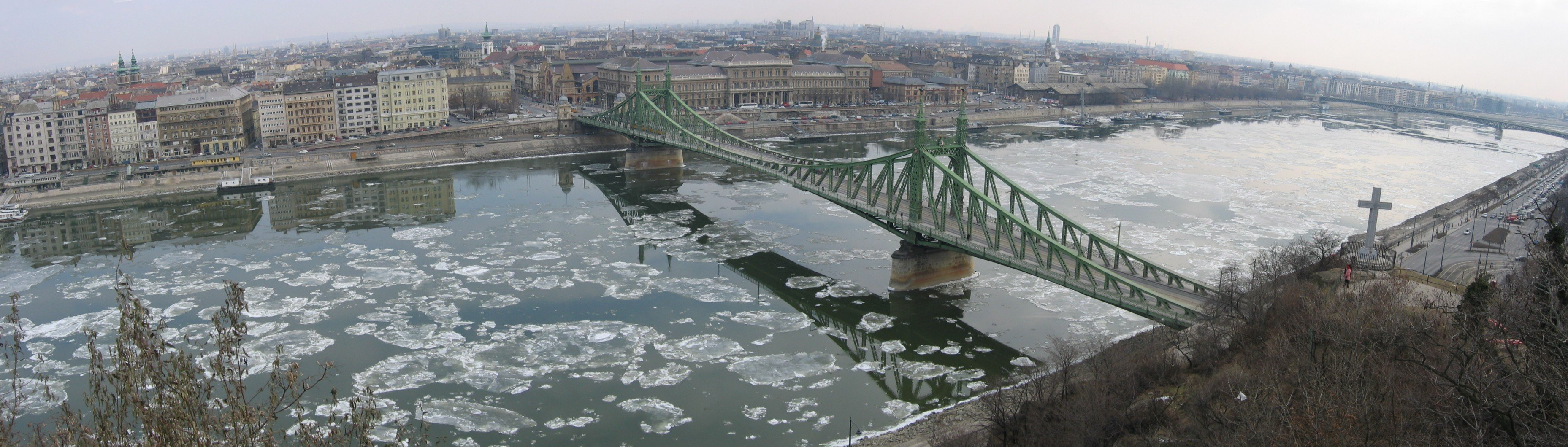 Budapest, Hungary, Freedom/Liberty Bridge, Panorama, January 2006.jpg